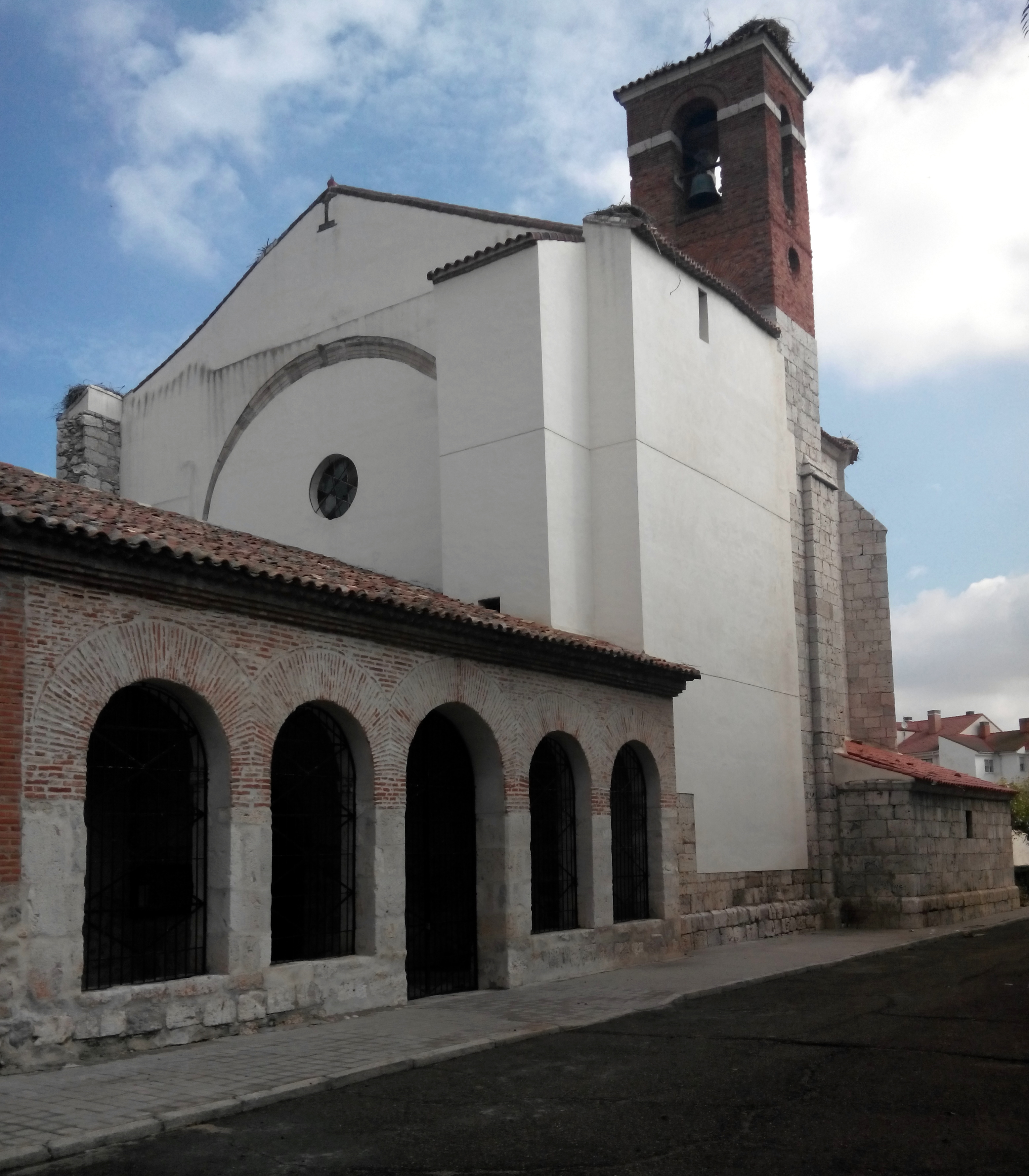 Church of St. John the Baptist in Santovenia de Pisuerga, Valladolid, Spain.